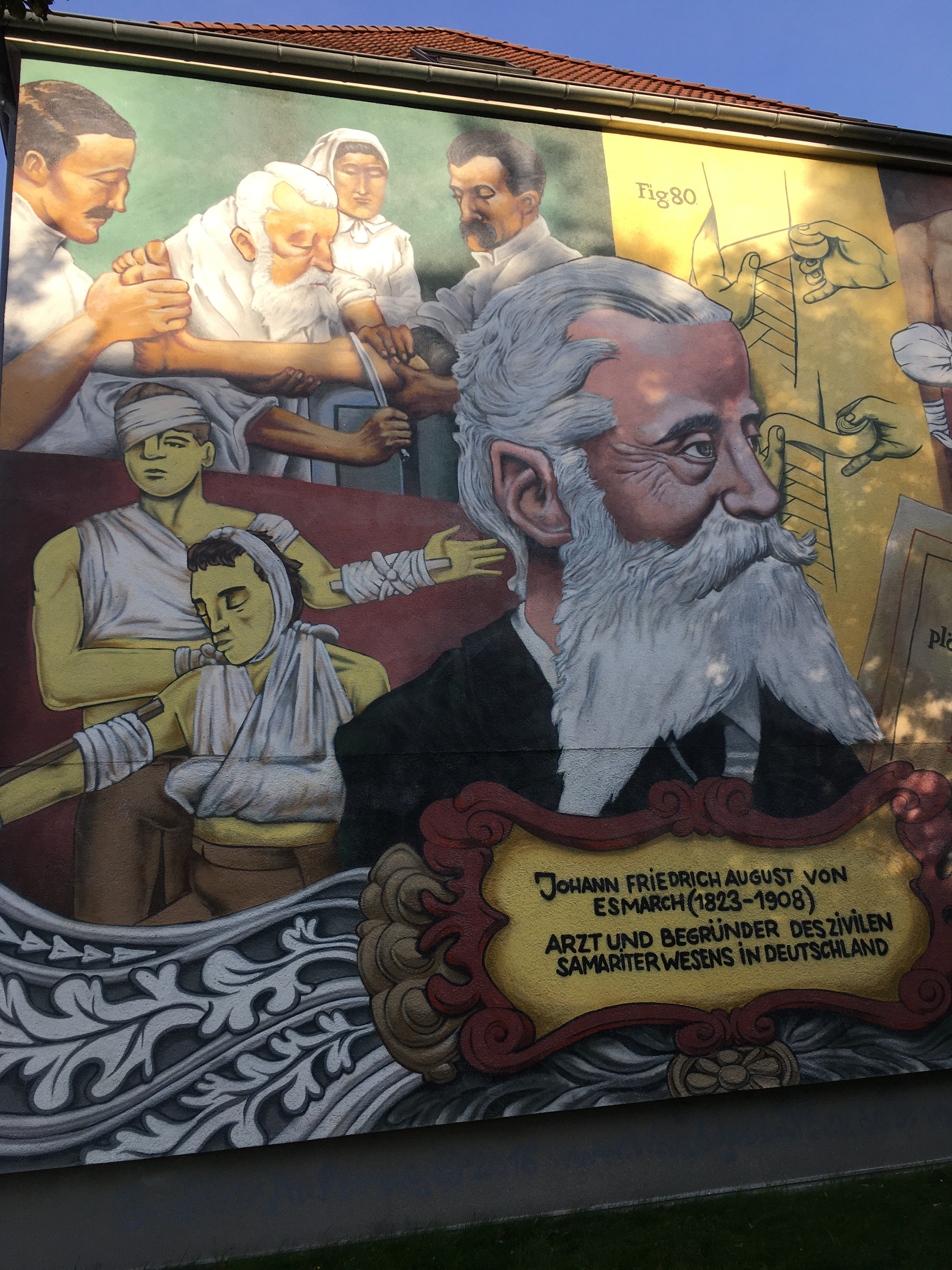 Mural in commemoration of Johann Friedrich August von Esmarch, founder of samaritanship in Germany; Ahrensburger Straße 169, Hamburg